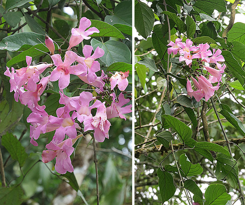 Also placed in the Fridericia genus. A vine from the Rio Hollin area of Ecuador.